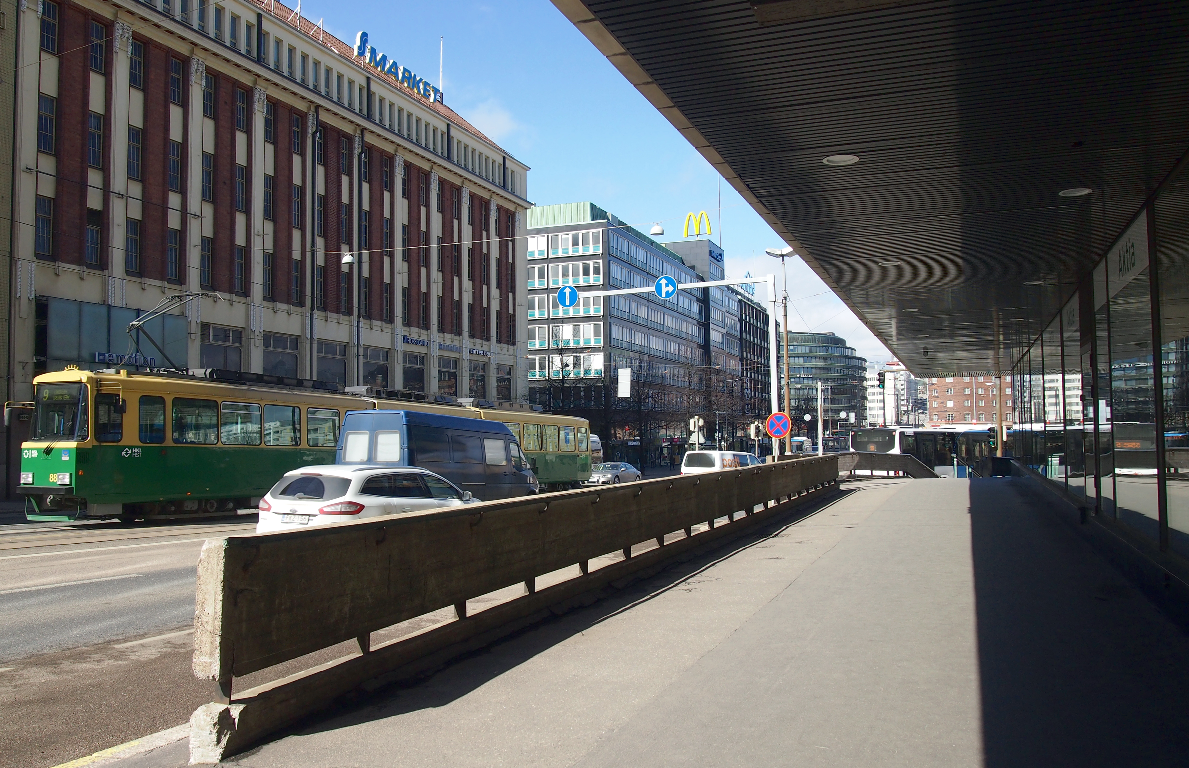 The street Siltasaarenkatu, Hakaniemi, Helsinki, Finland